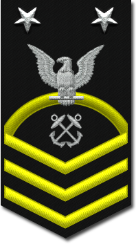 US Navy Master Chief Petty Officer shoulder patch rate insignia (good conduct variation)